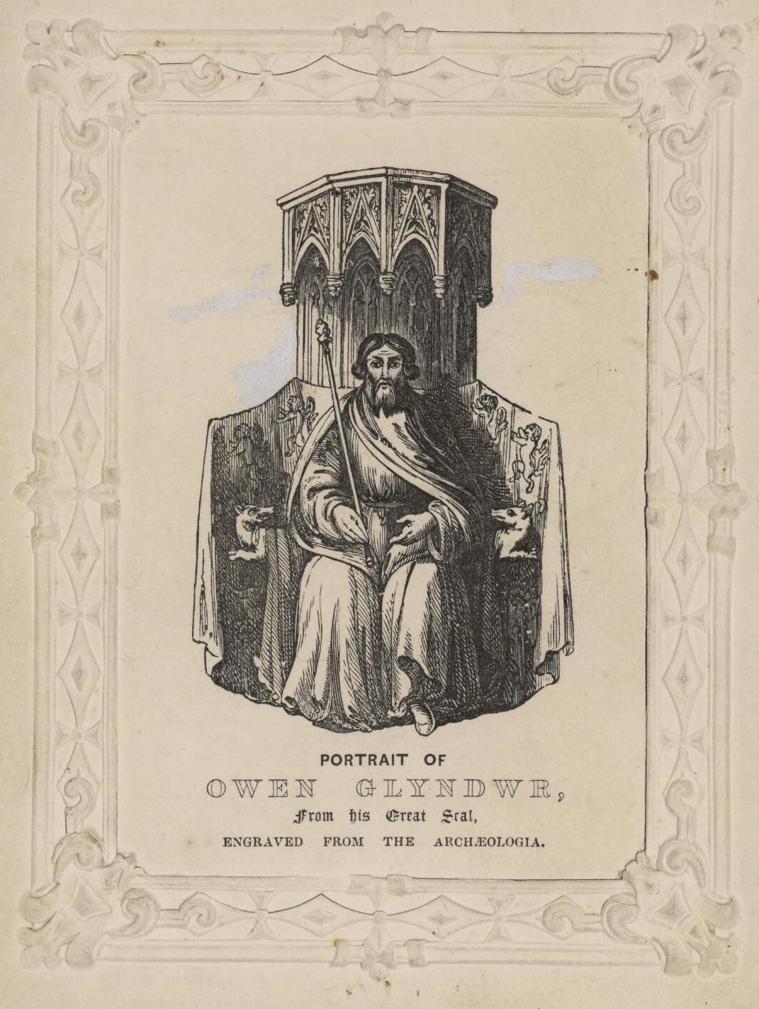 A portrait from the Welsh Portrait Collection at the National Library of Wales. Depicted person: Owain Glyndŵr – Prince of Wales